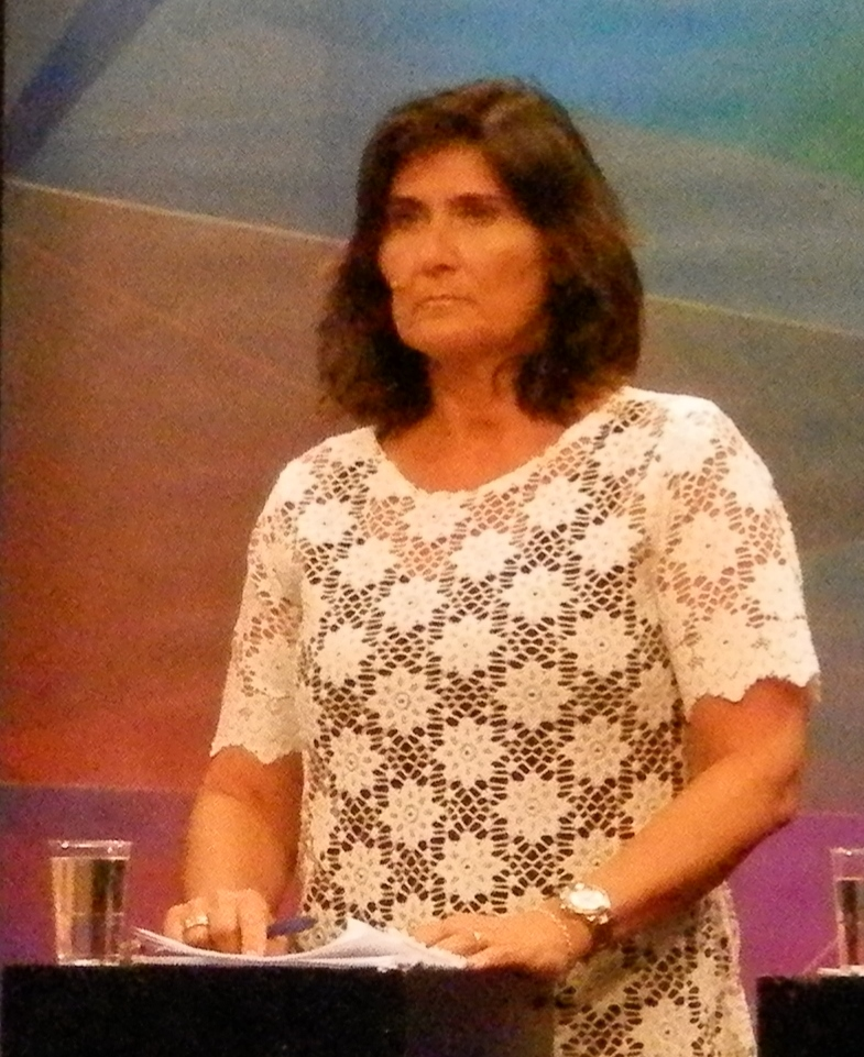 Elsebeth Mercedis Gunnleygsdóttir is a Faroese politician.